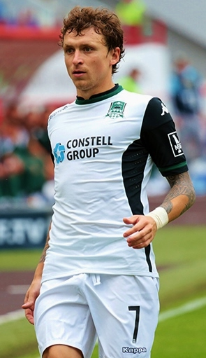 Pavel Mamaev